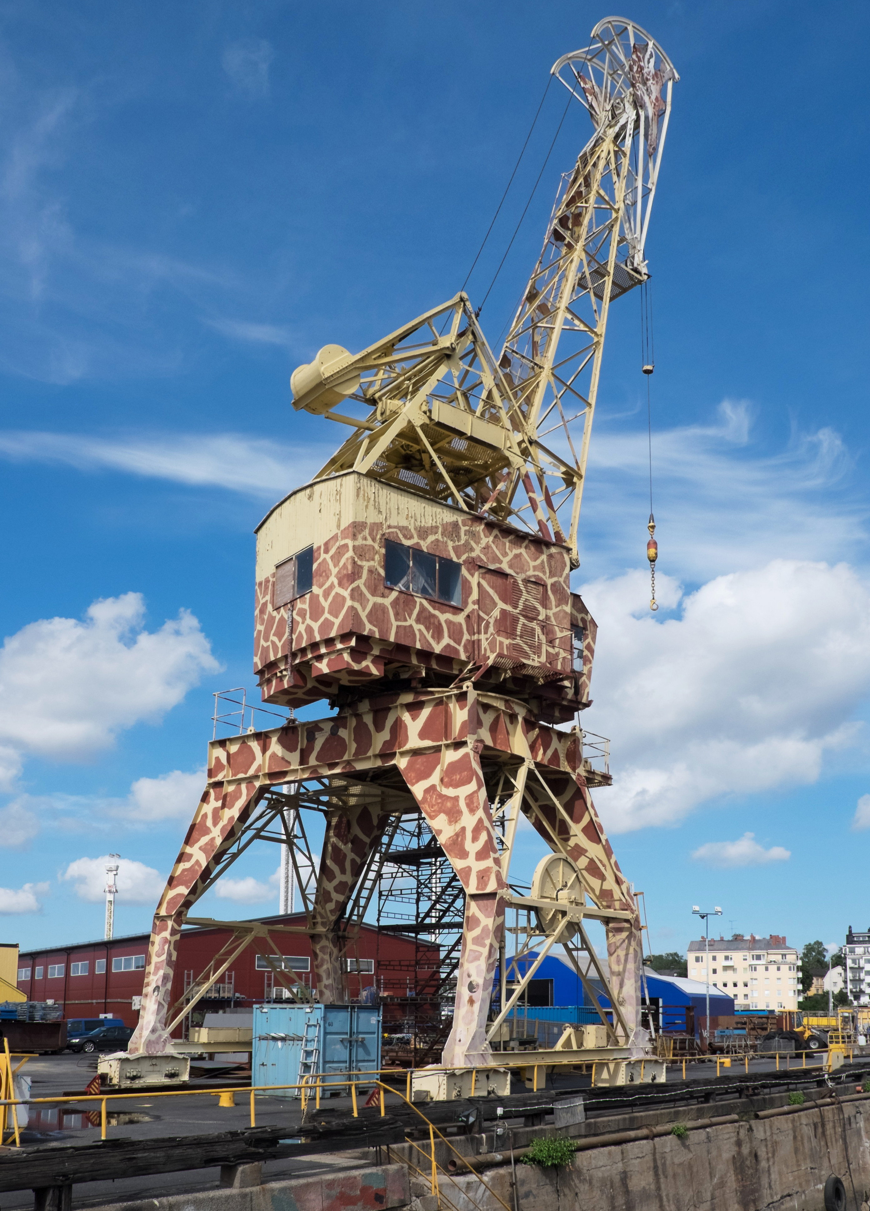 Beckholmen giraffe crane.